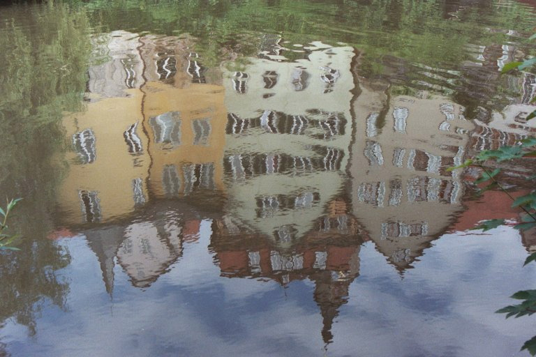 Reflection of houses in the Neckar, Tübingen, Germany.